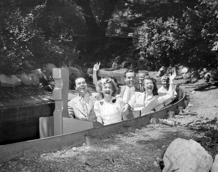 Photo of the Mill on the Floss ride at Riverview Park, Chicago. Picture are members of the cast of My Sister Eileen-from left: George Calvert, Peggy Van Vleet, Merritt Stone and Gretchen Davidson. They were apparently part of the cast of a traveling company of the play, as they are not listed in either the Broadway production or the film. The radio show did not air until 1946; photo is dated in September 1942.